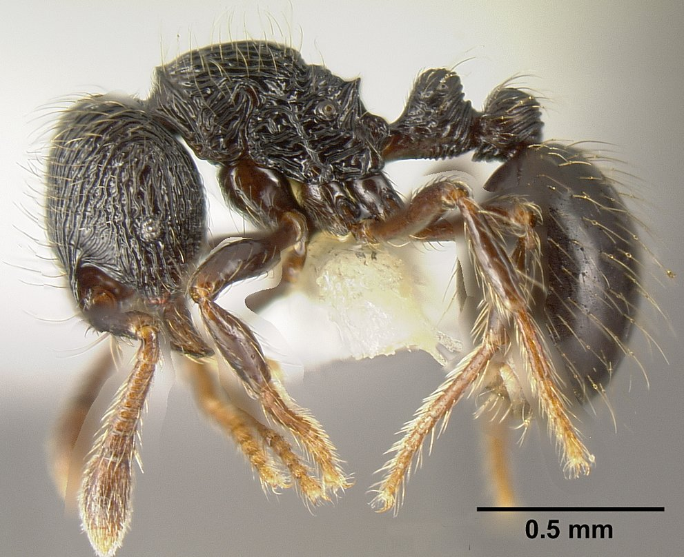 Profile view of ant Adelomyrmex tristani specimen inbiocri001279821.